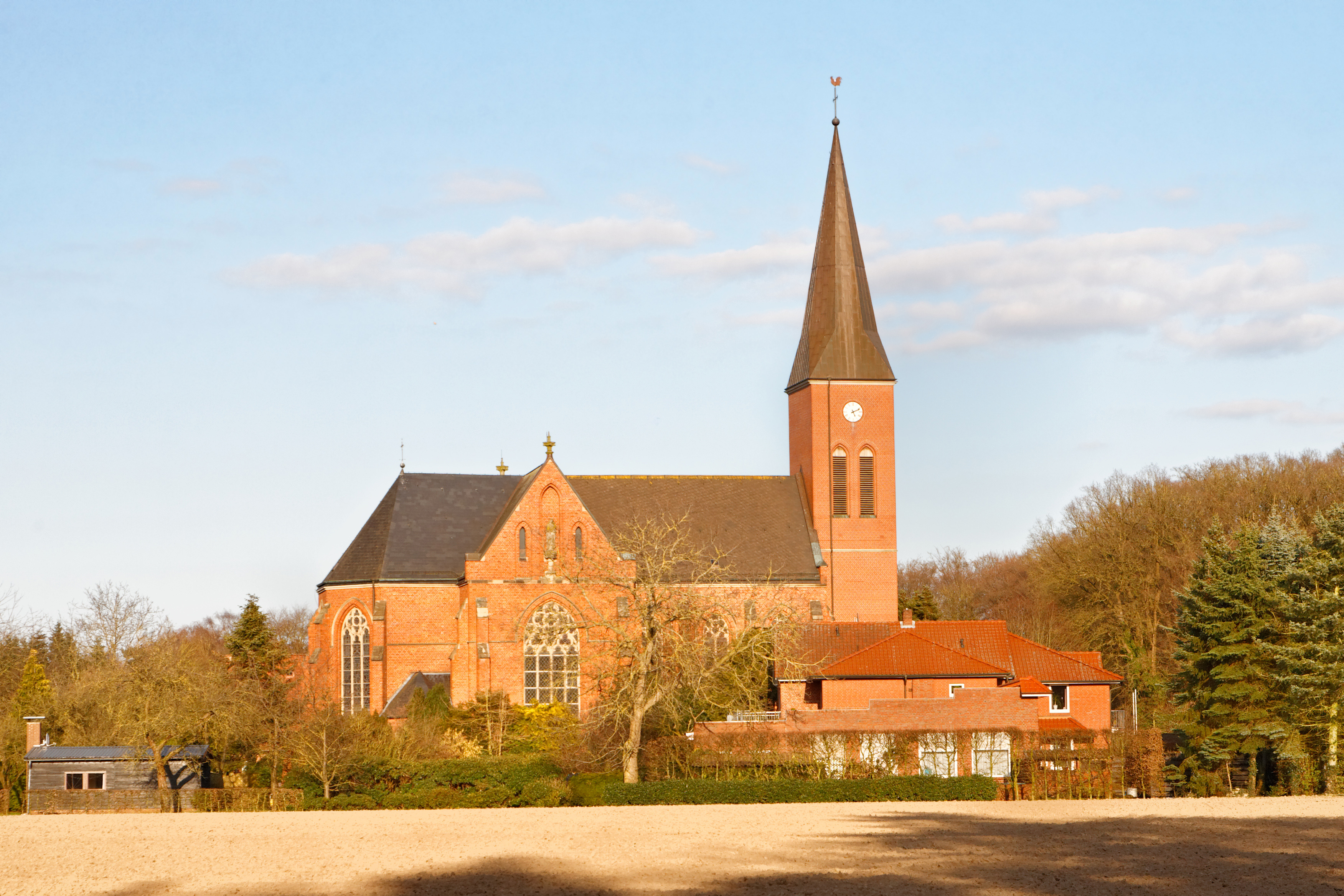 Elsten church in Cappeln (Oldenburg)